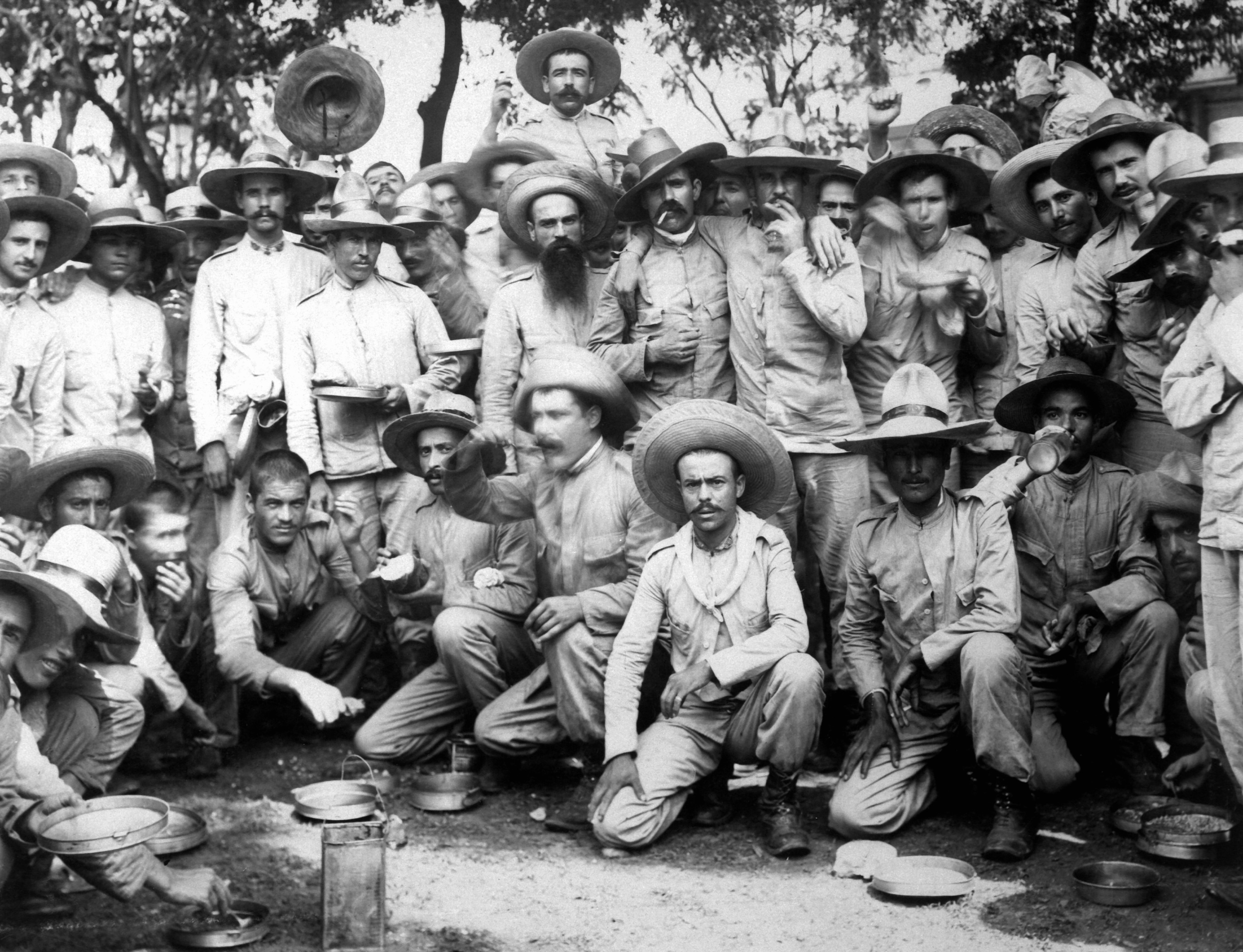 "Spaniards prisoners, noon-day meal, Manila. Ca. 1898." HD-SN-99-019453.